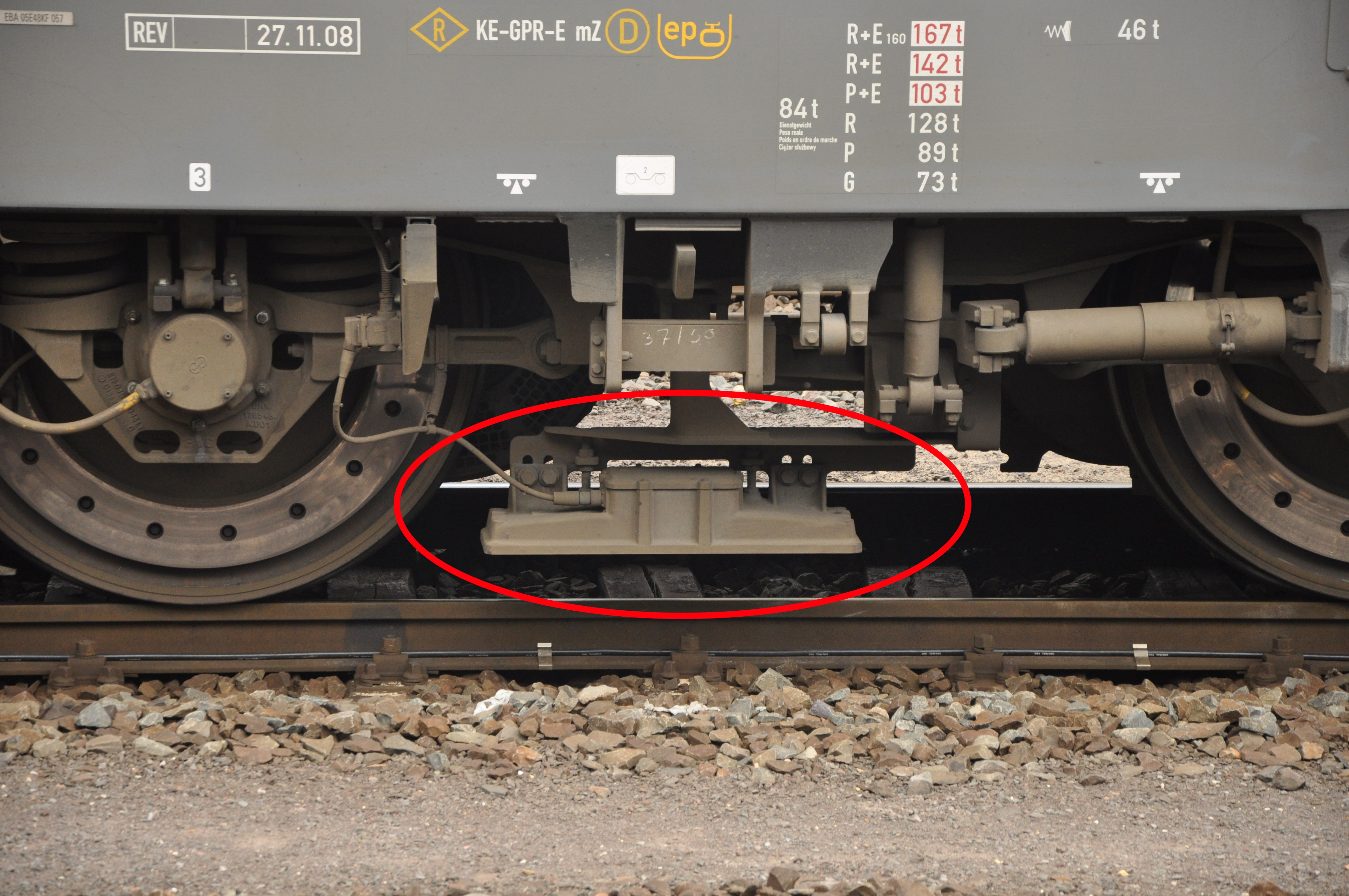 Indusi-Module (Induktive Zugsicherung) at Bombardier Traxx locomotive